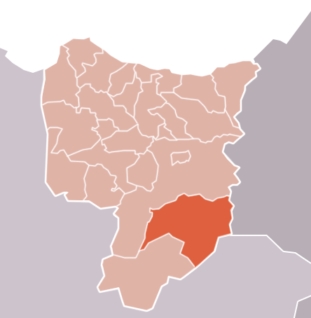 Oulad Boubker